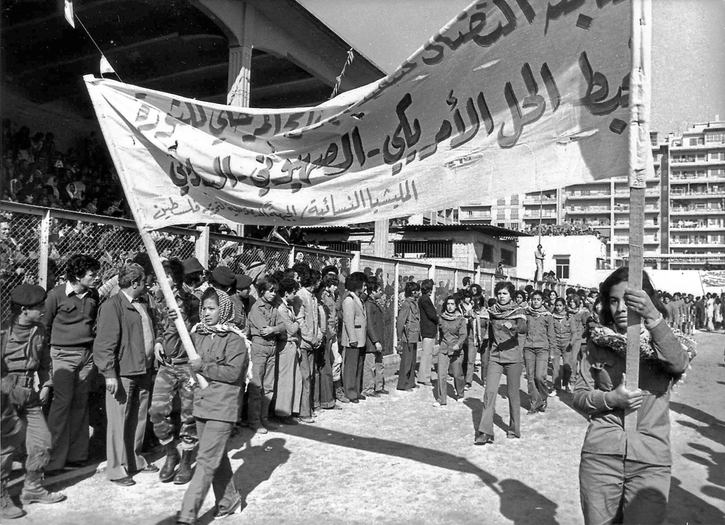 Female fedayeen of the PDFLP at a rally in Beirut, Lebanon